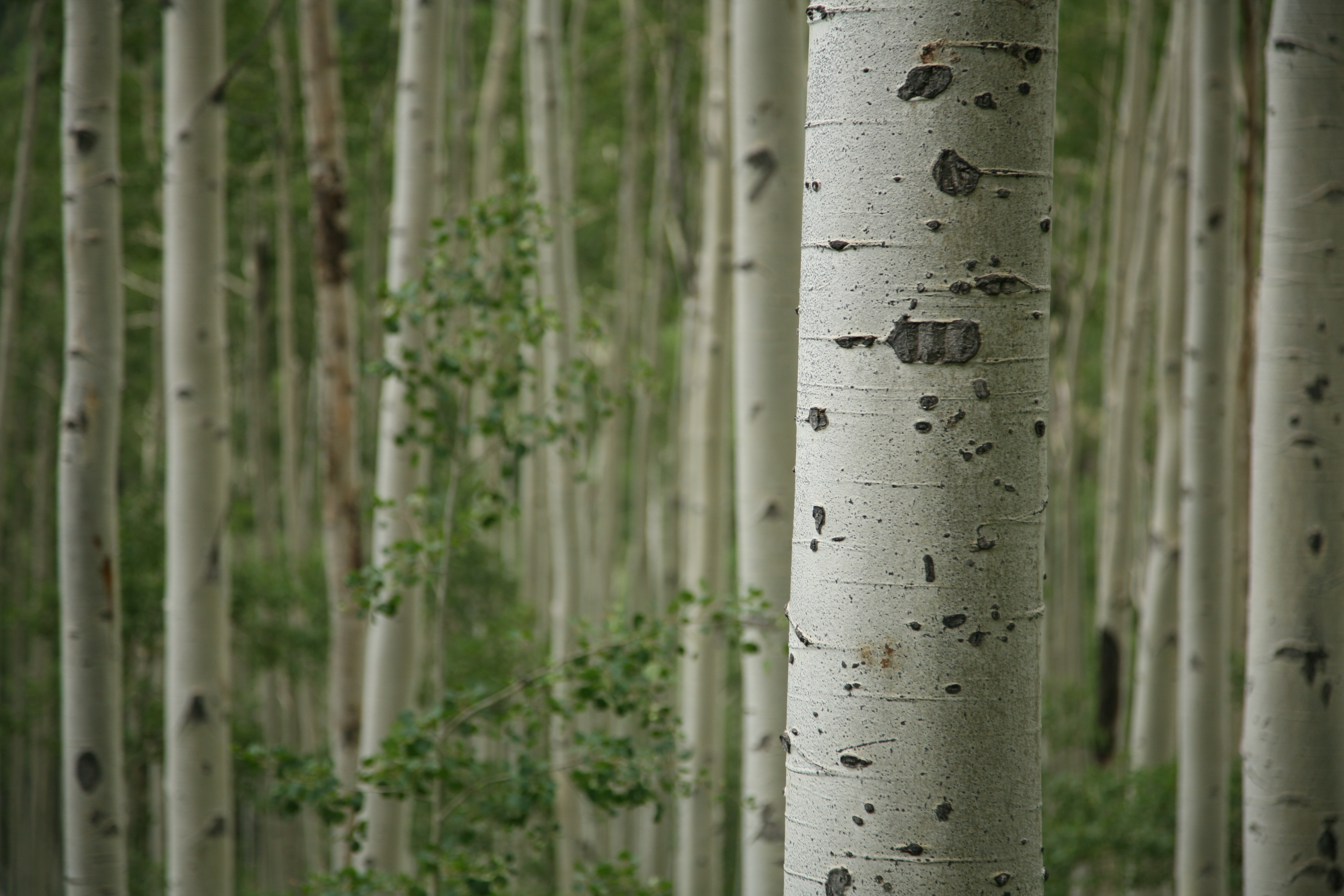 Aspen trees near Aspen, Colorado